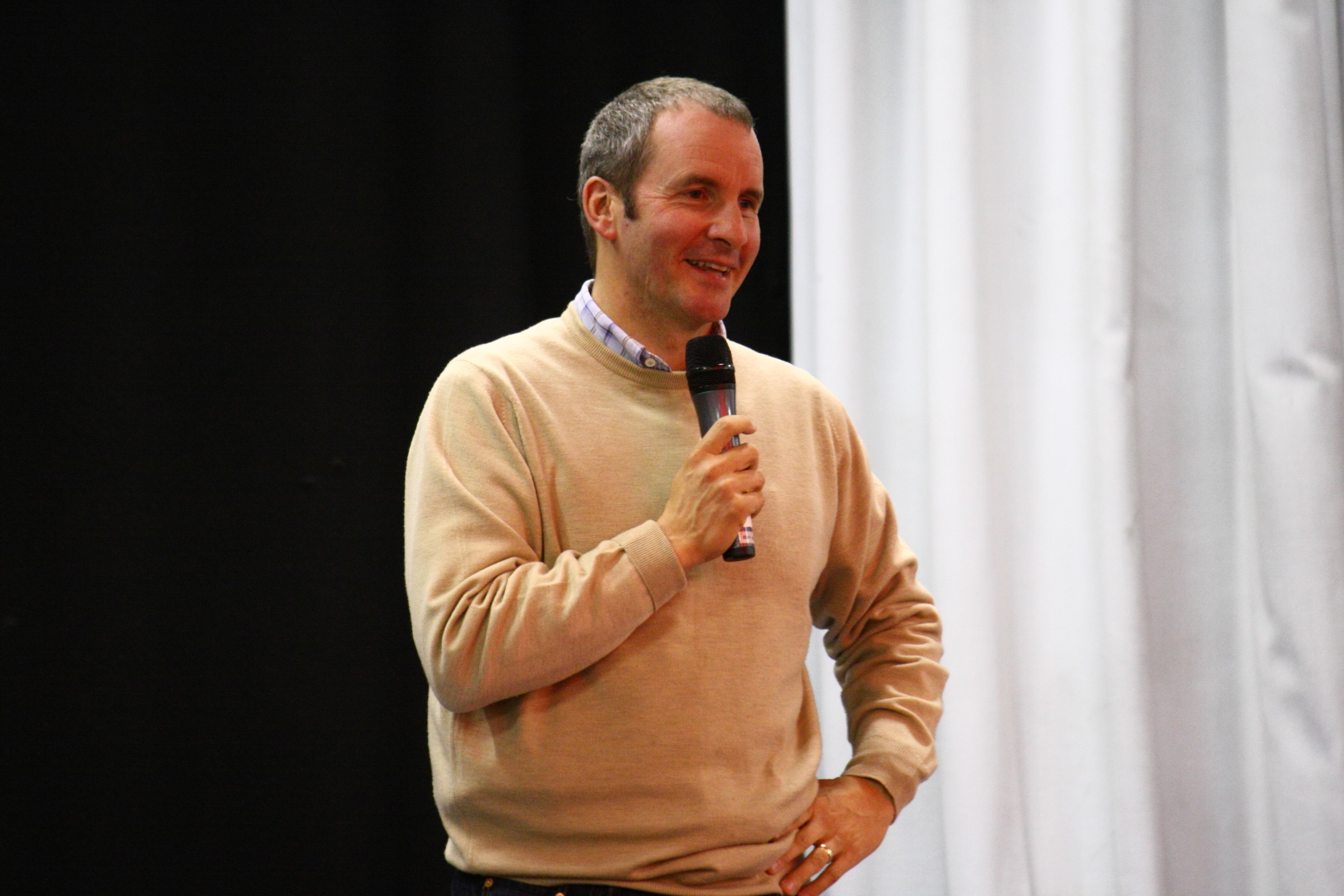 Chris Barrie aka Arnold Judas Rimmer BSC, SCC from Red Dwarf at Dimension Jump XV, Birmingham UK